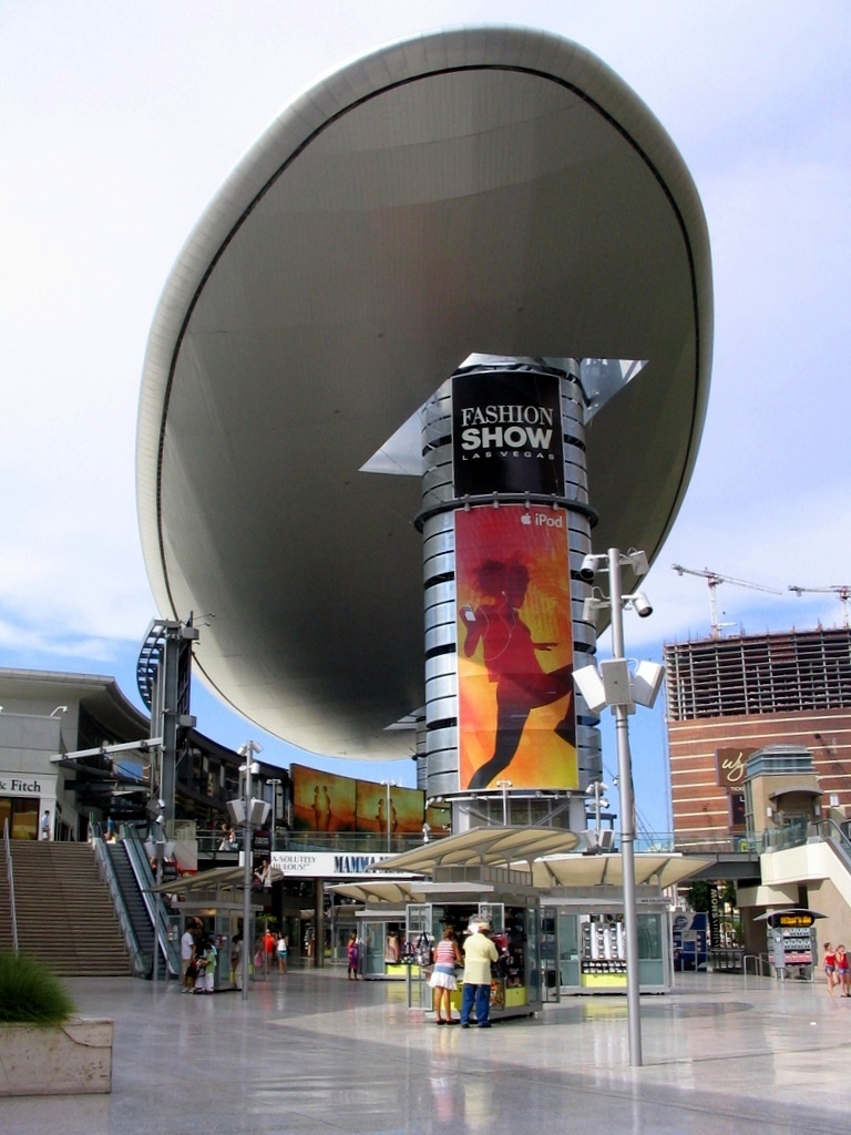 Fashion SHow Mall en Las Vegas